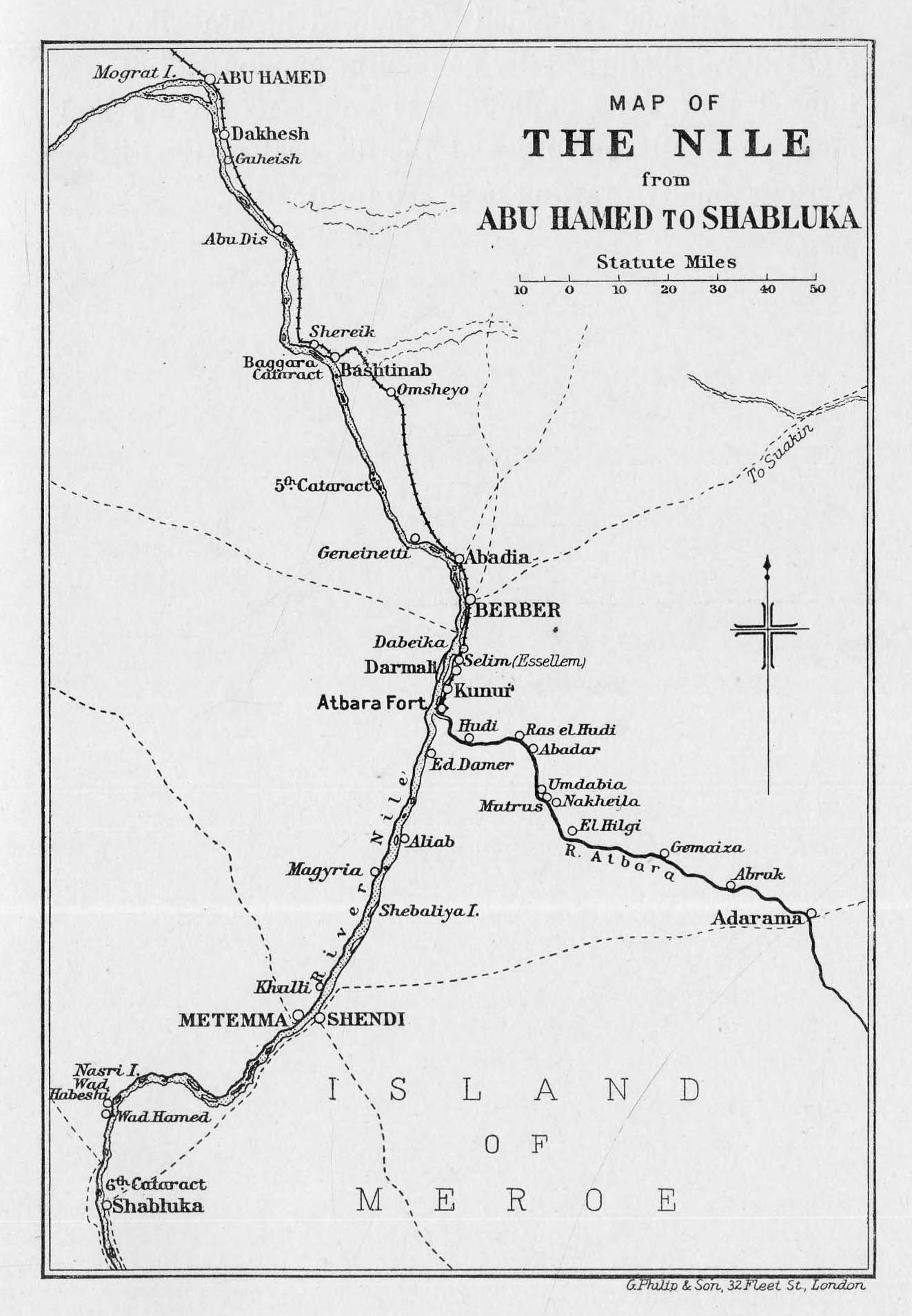 The Nile from Abu Hamed to Shabluka